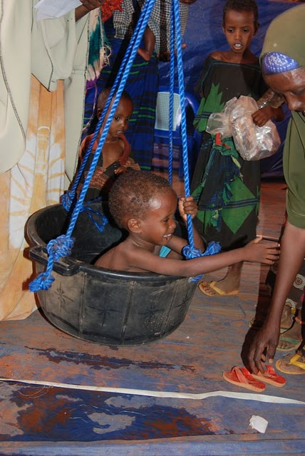 Children are weighed as part of the malnutrition screening process. VOA - P. Heinlein